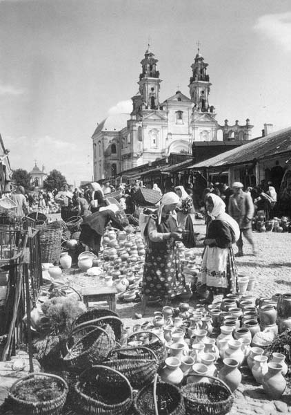 Market Square Pinsk. 1930 year.